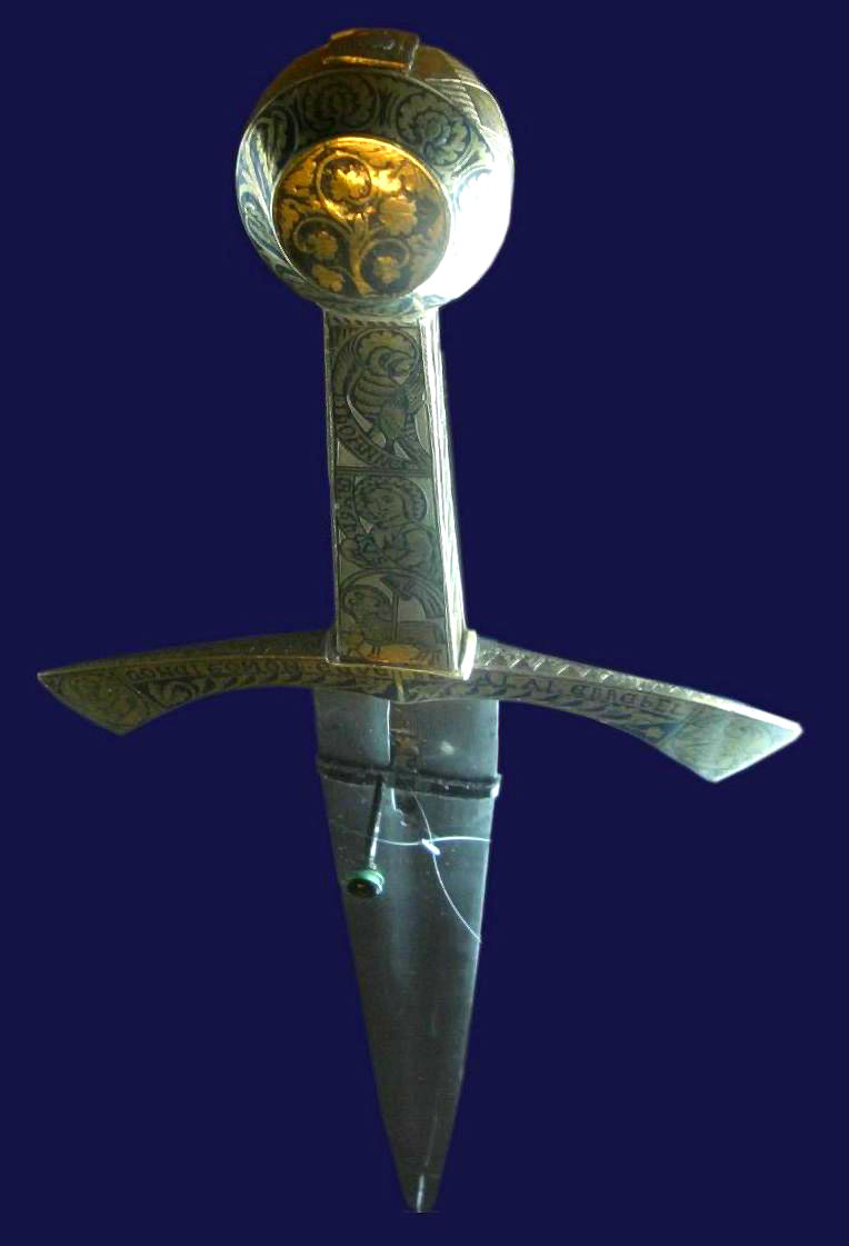 The Szczerbiec (Polish coronation sword; reverse) as displayed in the Wawe Castle